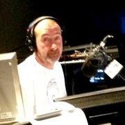 Marc Riley